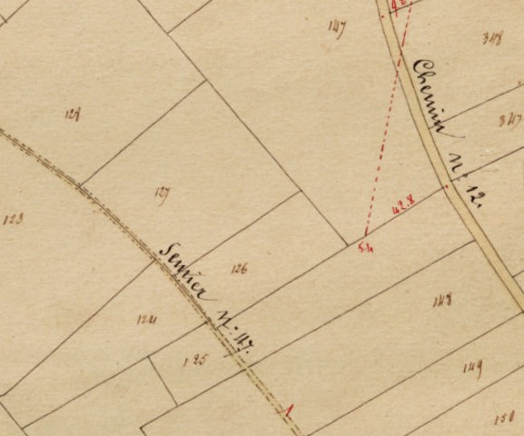 Detail plan of the Atlas of vicinal roads